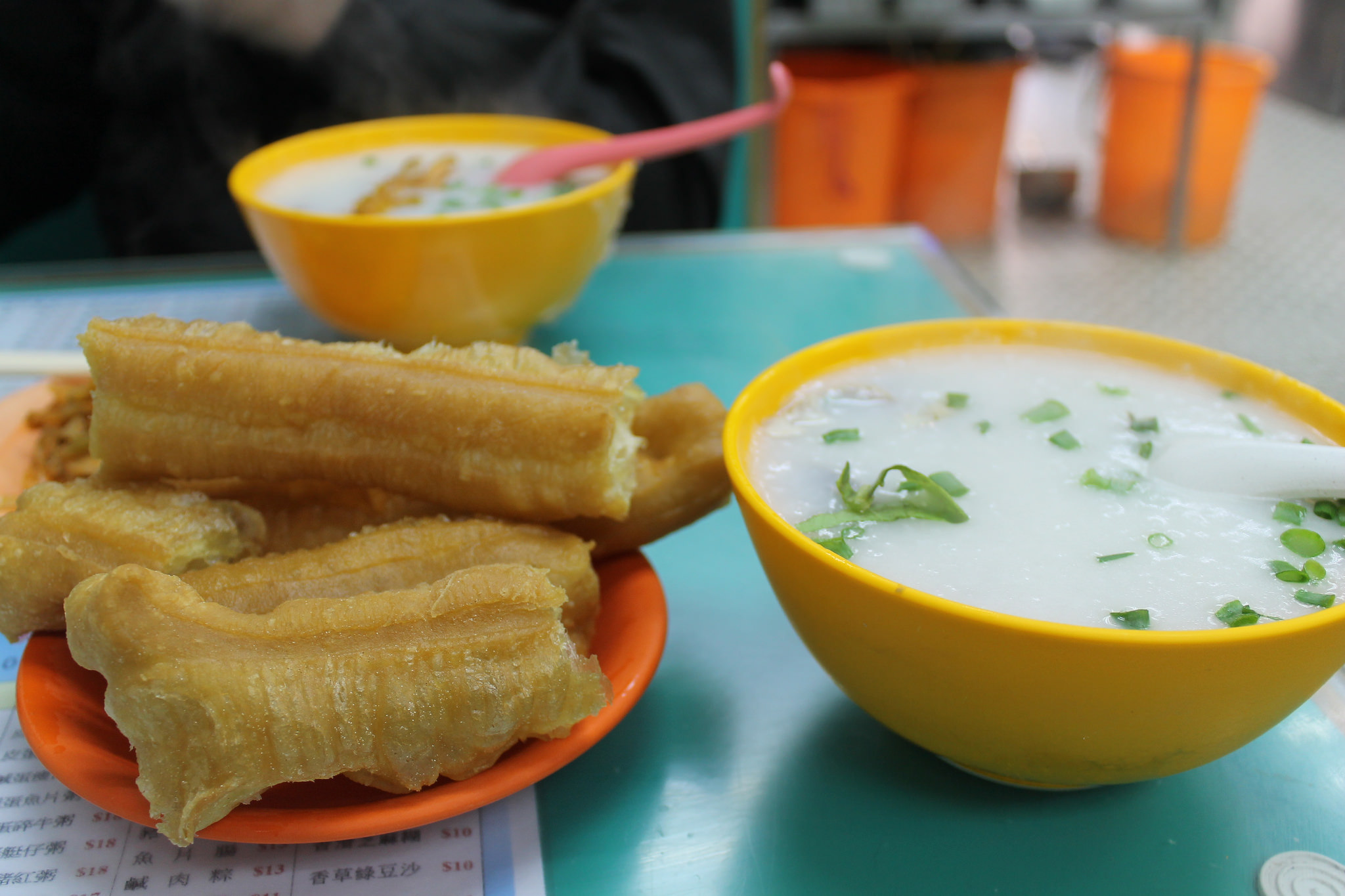 Congee with Youtiao